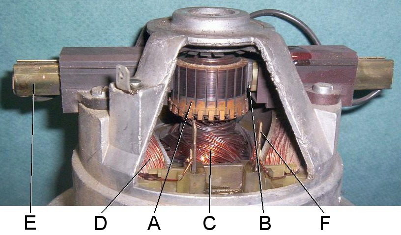 Closeup of an electric motor from a vacuum cleaner, showing the commutator. This is a universal motor that runs on alternating current. The commutator is a rotary switch that supplies power to the rotor windings, reversing the direction of current with each half turn so the magnetic field of the winding exerts a steady torque to turn the rotor in one direction. Labeled parts: (A) commutator, (B) brush, (C) rotor (armature) winding, (D), stator (field) winding, (E) brush guide. Alteration to original image: changed labels of parts from German to letters.